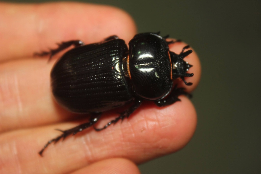 Found at a gas station around lights.